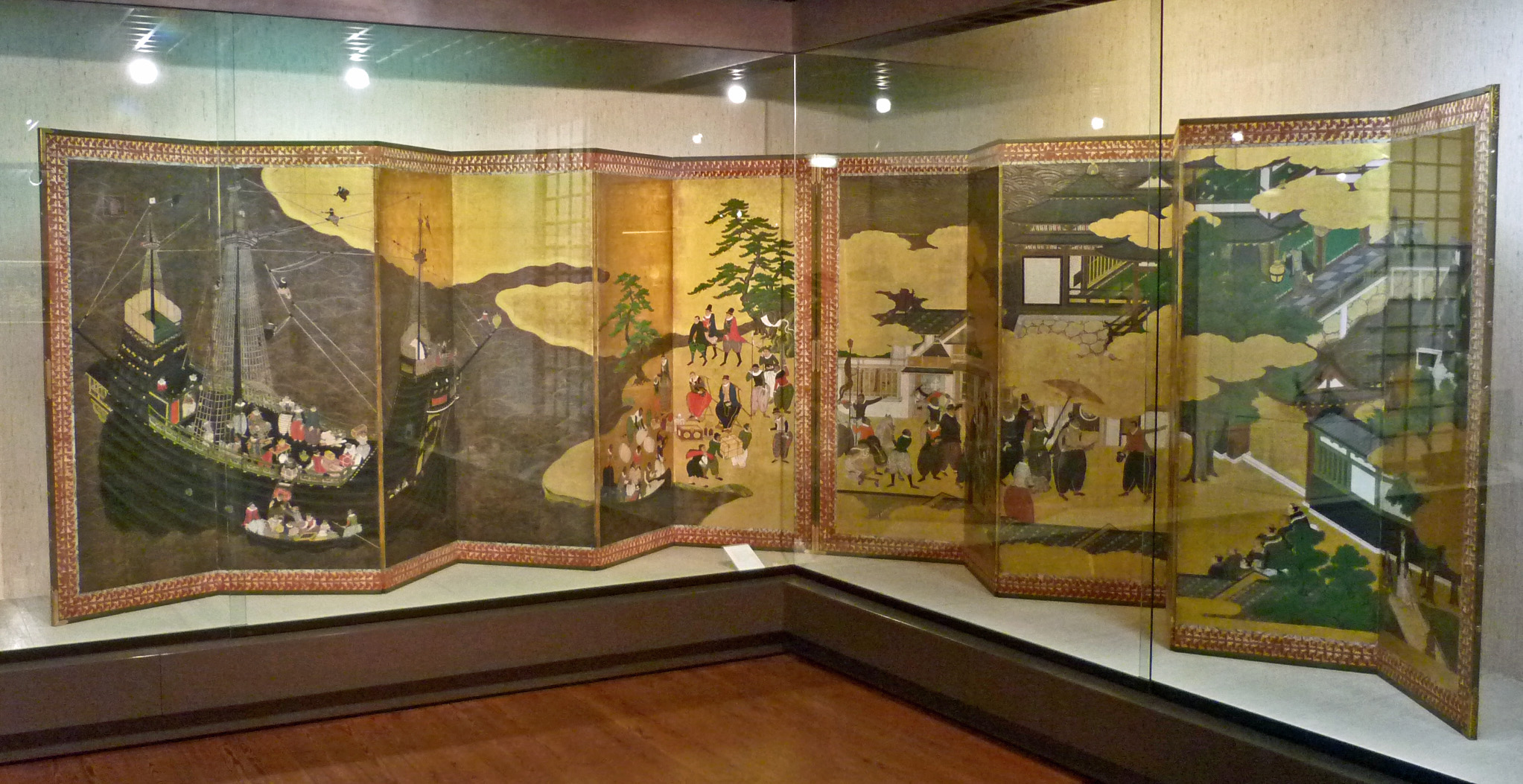 Japanischer Wandschirm im Nationalen Kunstmuseum Lissabon (Museu Nacional de Arte Antiga)